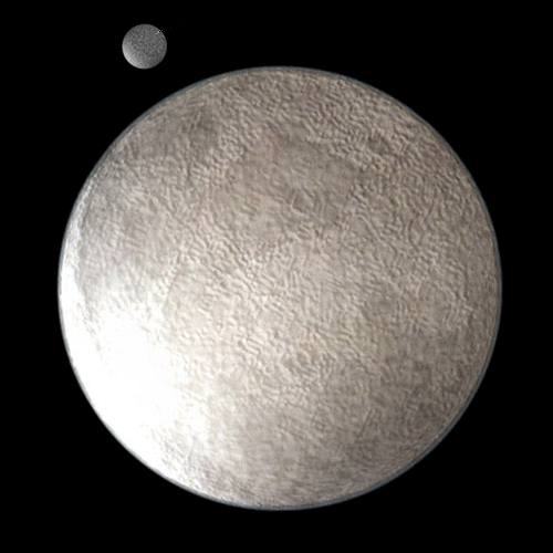 Trans Neptunian Dwarf Planet Eris and its moon